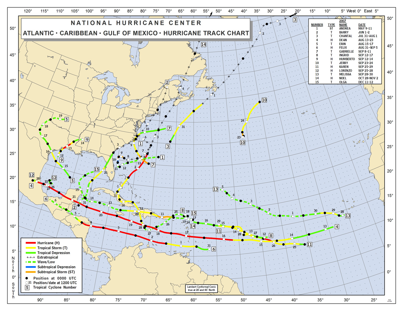 Season summary provided by NOAA of the 2007 Atlantic hurricane season.